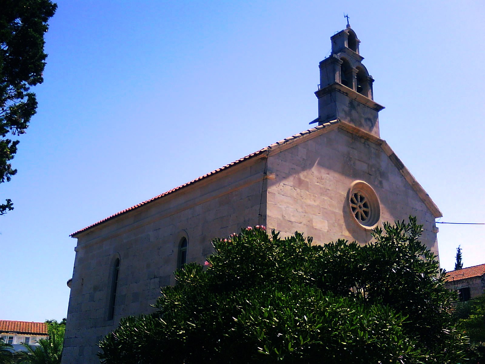 Roman catholic church on the Island of Vrnik